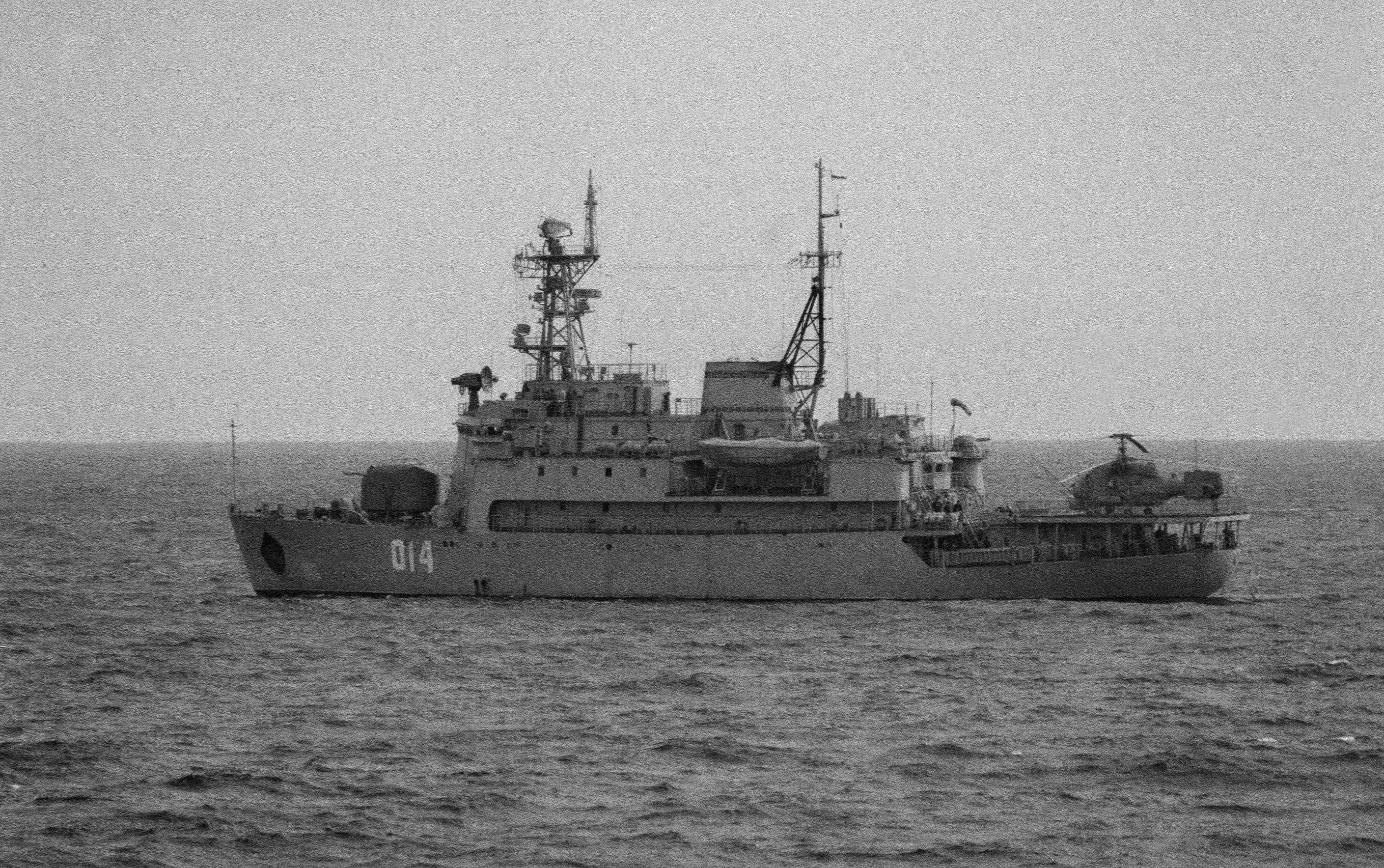 The Soviet Ivan Susanin class patrol icebreaker Imeni XXV sezda KPSS with a Ka-25 Hormone helicopter on the helicopter pad shadows salvage operations for downed Korean Air Lines Flight 007 (KAL 007). The commercial jet was shot down by Soviet aircraft over Sakhalin Island in the Sea of Japan on August 30, 1983. All 269 passengers and crewmen were killed.